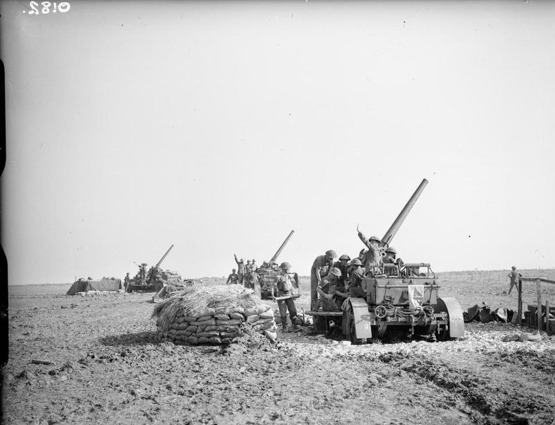 The British Army in France 1939 3-inch anti-aircraft guns of 2nd AA Battery, 1st AA Brigade, near BEF GHQ at Wanquetin, 19 October 1939.